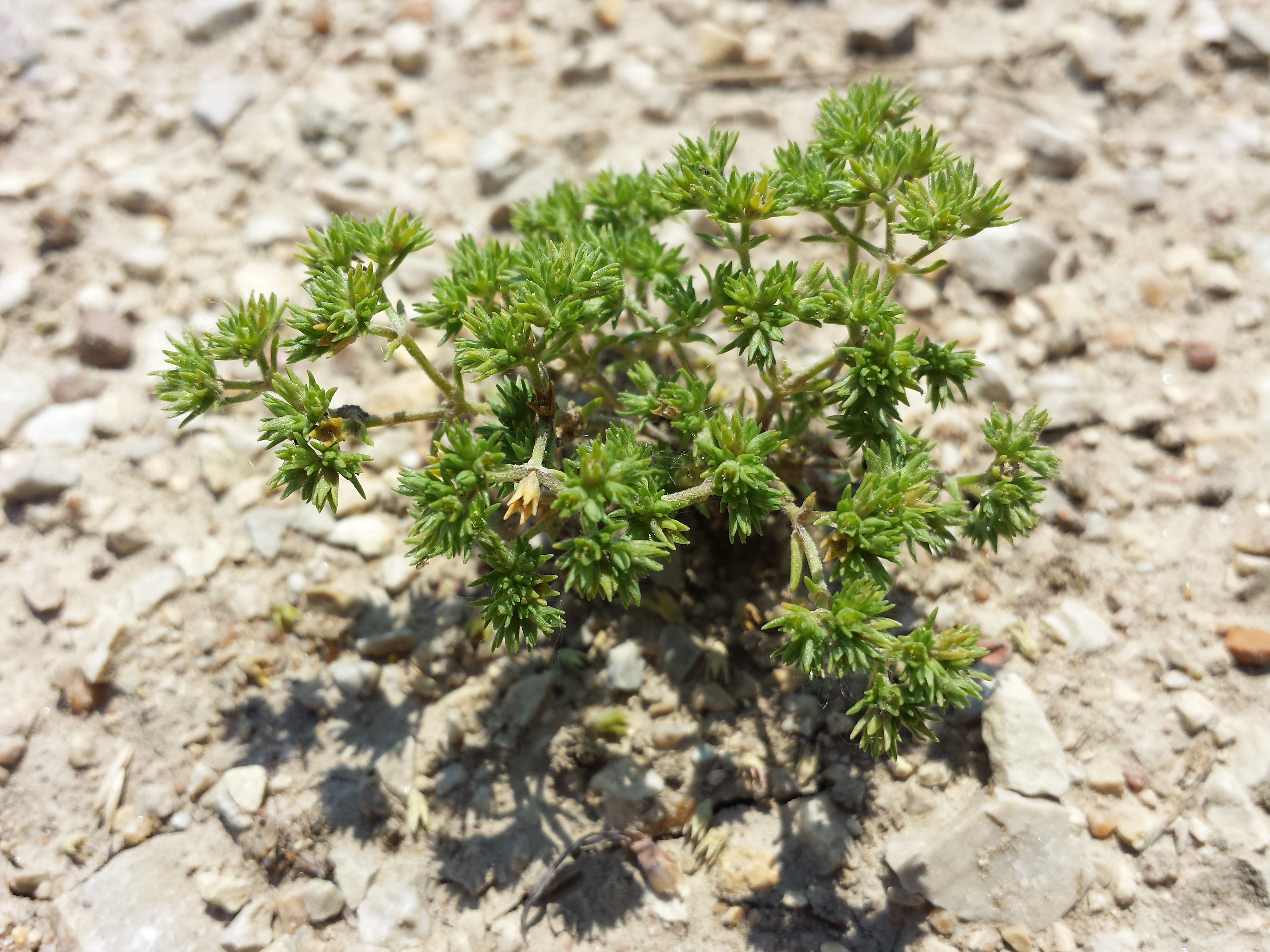 Habitus Taxonym: Scleranthus verticillatus ss Fischer et al. EfÖLS 2008 ISBN 978-3-85474-187-9; det. Gergely Király 2015-06-13 Location: Veszprém County, Hungary - ca. 200 m a.s.l. Habitat: sandy ruderal place